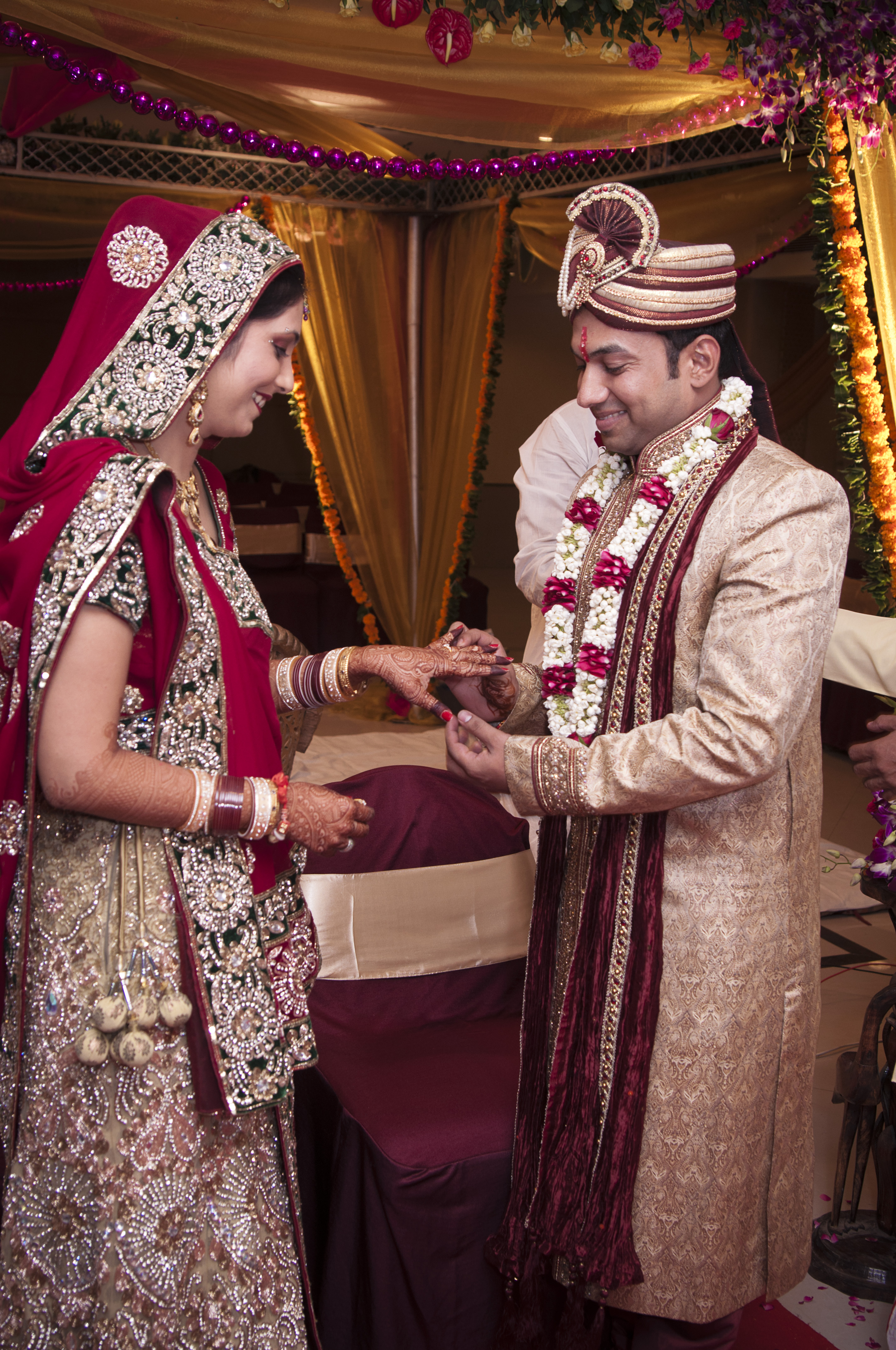 Ring ceremony, Indian Hindu wedding